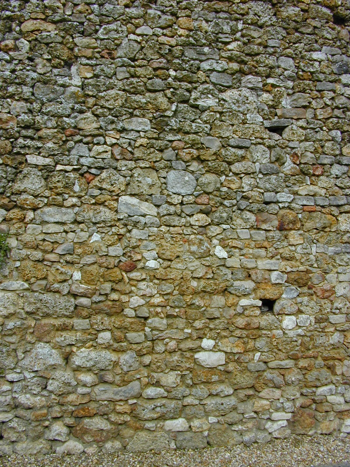 Aincourt's stone "the meullière"